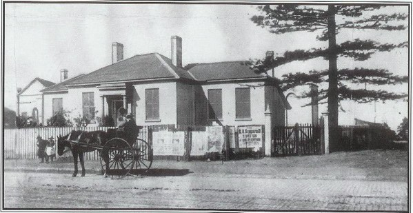 Black and white photograph showing a large nineteenth-century home next to a Norfolk pine. A small horse-drawn buggy sits in front of the front gate.